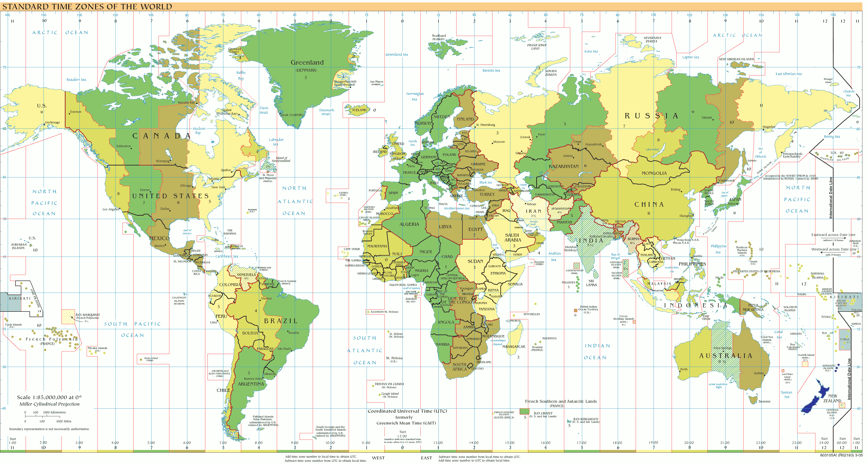 UTC+13 since 2010. It is not used in Russia now. Light Blue – UTC+13 Sea Areas Dark Blue – UTC+13 Northern Winter/ Southern Summer (e.g. December) Orange – UTC+13 Northern Summer / Southern Winter (e.g. June) Yellow – UTC+13 all year round